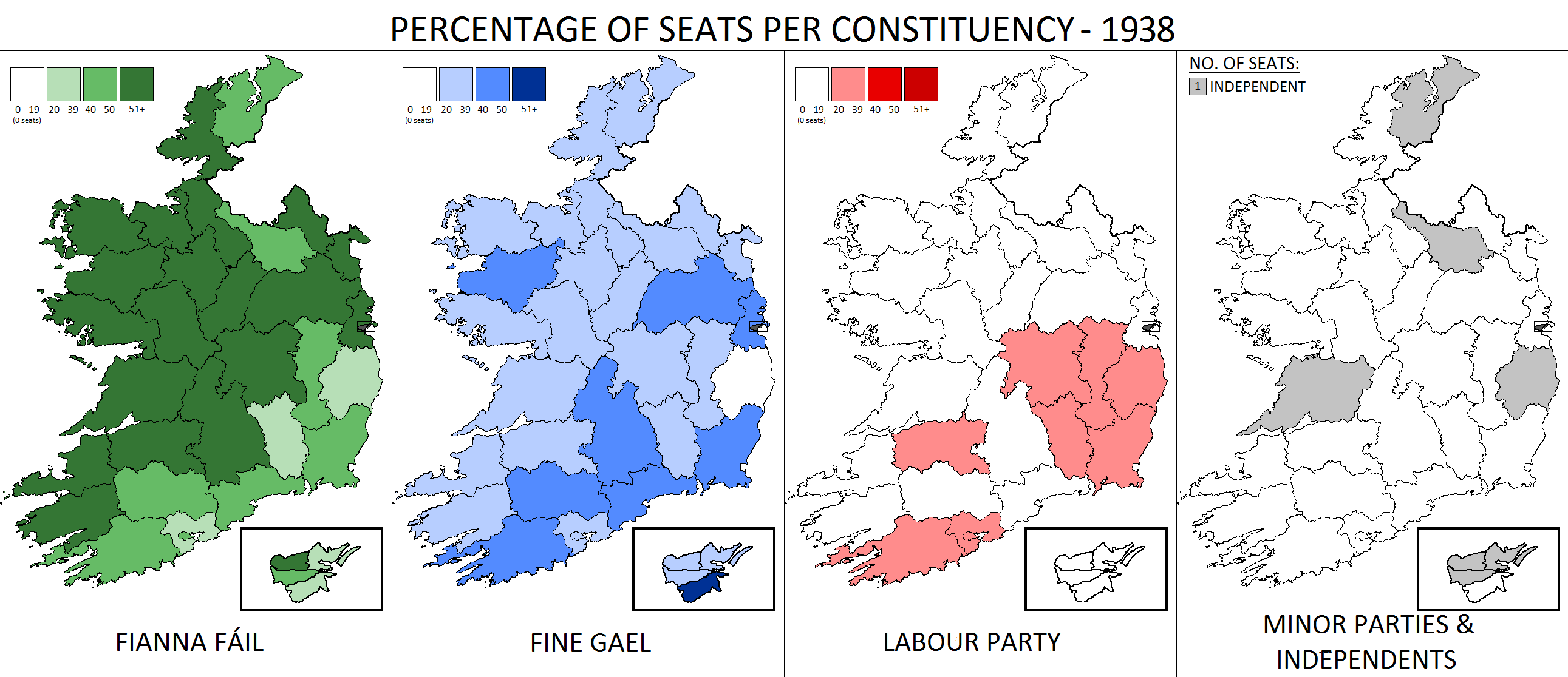 Graphical representation of the 1938 Irish general election results. Created by myself using data from Wikipedia and literary sources.